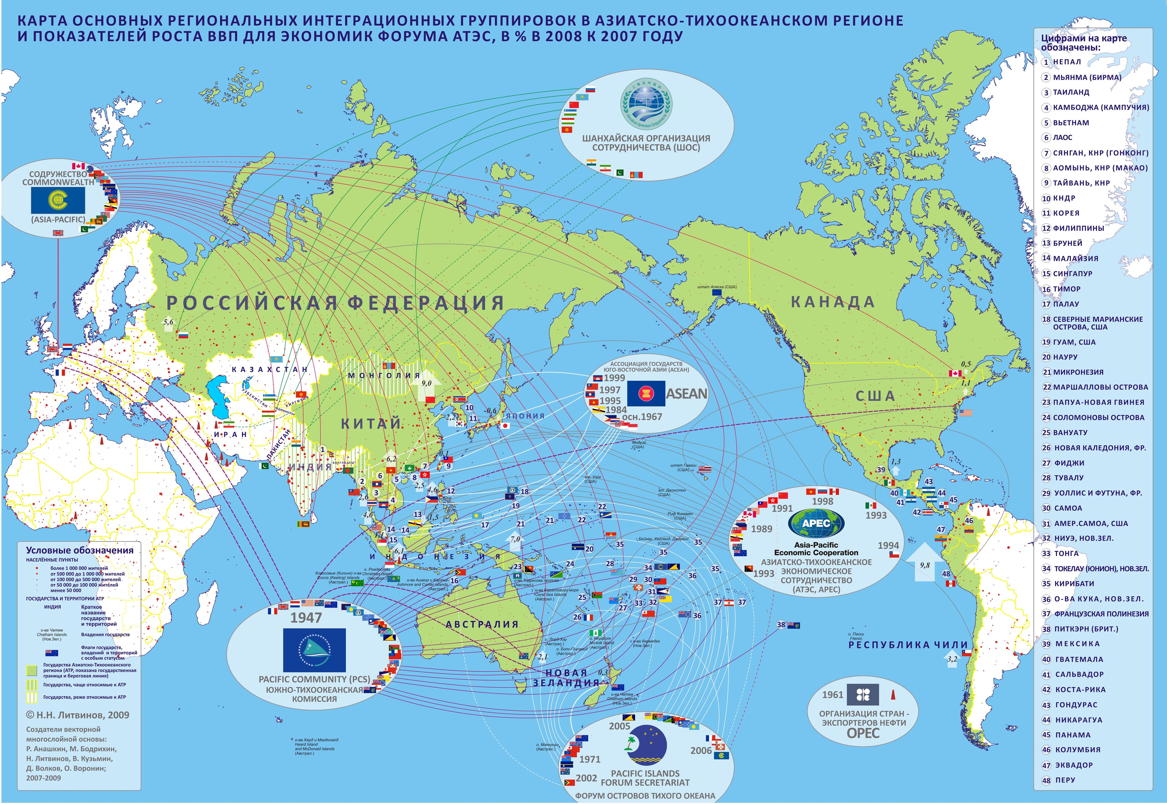 Pacific Rim. Published.